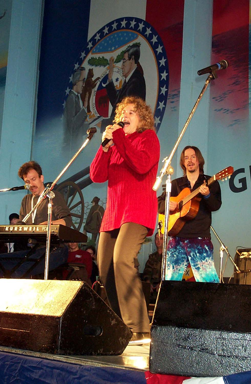 Carole King, accompanied by Jon Carroll on the keyboard, and Arlen Schierbaum on the guitar, sings for about 1,500 sailors and Marines aboard the USS Harry S. Truman in the Mediterranean. The three were among the celebrities and entertainers who performed Dec. 16, 2000, during Defense Secretary William S. Cohen's fourth and final holiday tour.